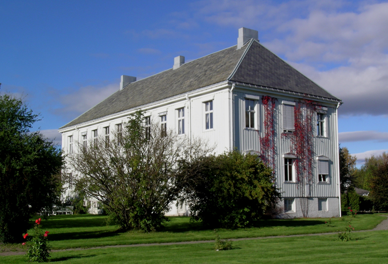 Town hall, Andebu, Norway.